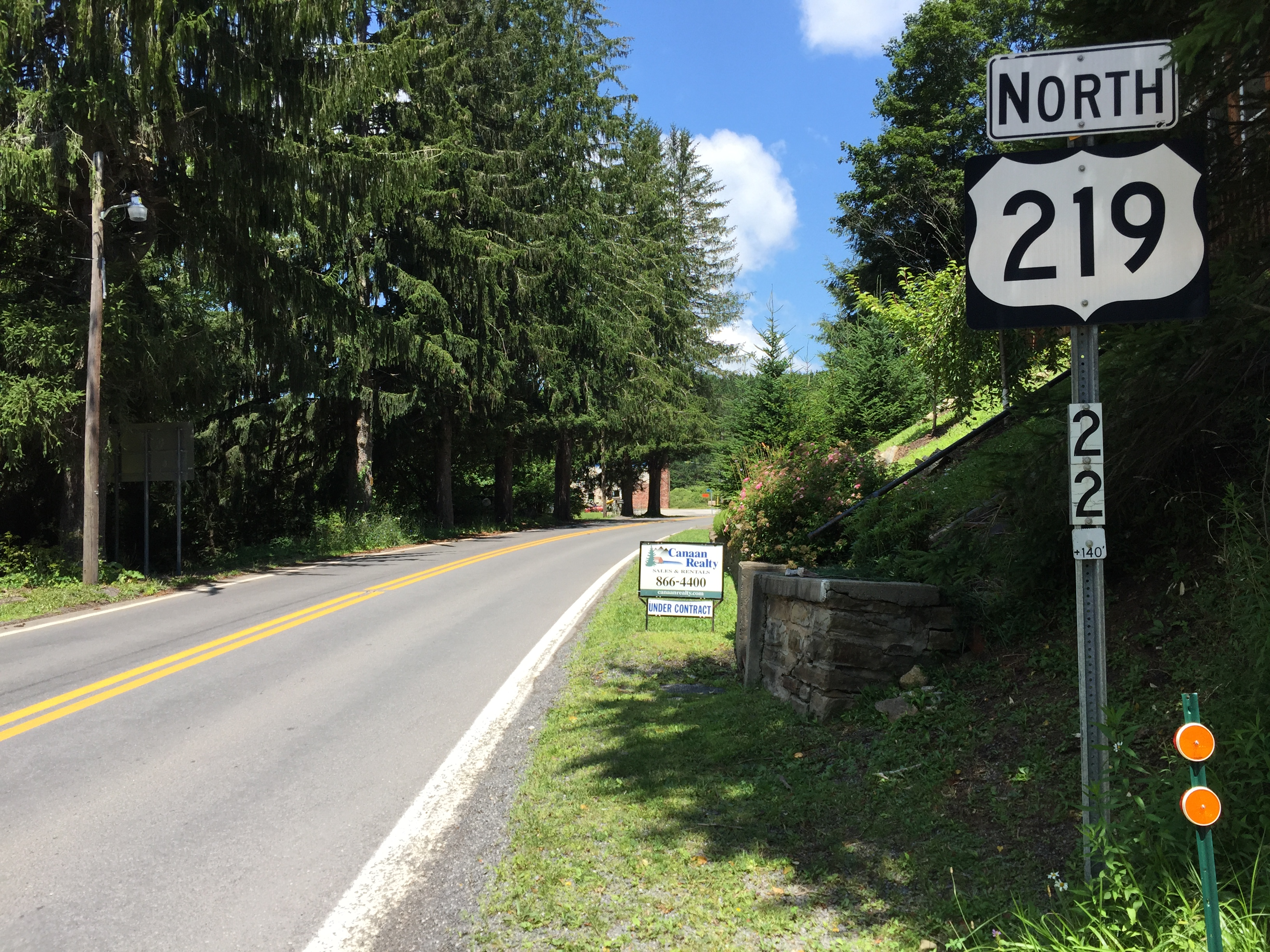 View north along U.S. Route 219 (Seneca Trail) at West Virginia State Route 32 (Appalachian Highway) in Thomas, Tucker County, West Virginia